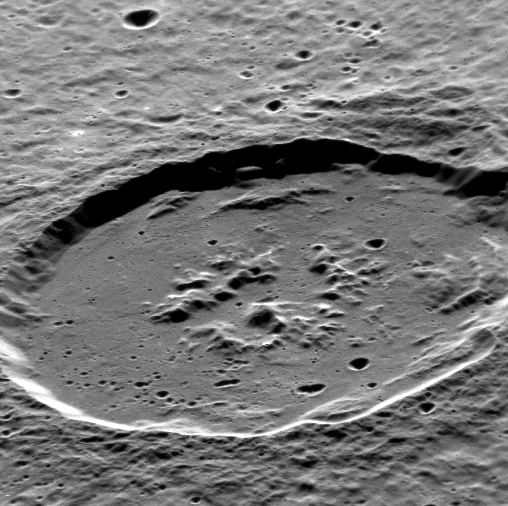 Date acquired: May 10, 2011 Image Mission Elapsed Time (MET): 213501587 Image ID: 235044 Instrument: Narrow Angle Camera (NAC) of the Mercury Dual Imaging System (MDIS) Center Latitude: 25.59° Center Longitude: 166.7° E Resolution: 88 meters/pixel Scale: Atget is 100 km (62 miles) in diameter Incidence Angle: 69.4° Emission Angle: 60.1° Phase Angle: 129.1° Of Interest: At a diameter of 100 km, the crater Atget is one of the largest craters within the Caloris basin. This targeted NAC observation provides our first high-resolution view of Atget's low-reflectance floor and ejecta, which were likely excavated from beneath the surficial plains when Atget formed. Check out Atget in this enhanced color view of Caloris. It's the dark blue crater just south of Caloris's center. This image was acquired as a high-resolution targeted observation. Targeted observations are images of a small area on Mercury's surface at resolutions much higher than the 250-meter/pixel (820 feet/pixel) morphology base map or the 1-kilometer/pixel (0.6 miles/pixel) color base map. It is not possible to cover all of Mercury's surface at this high resolution during MESSENGER's one-year mission, but several areas of high scientific interest are generally imaged in this mode each week.